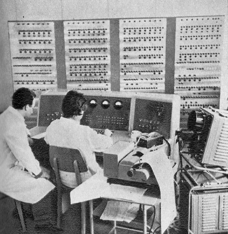 CIFA-3, electronic computer built at Atomic Physics Institute, Romania